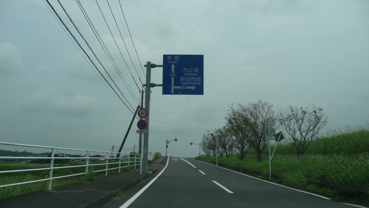 Kagoshima Prefectural Road 554 (Miyage, Kimotsuki Town, Kagoshima, Japan)